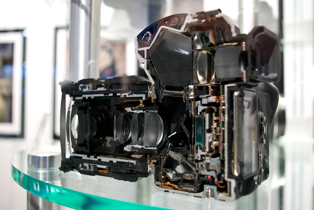 Olympus E3 cut-away model.